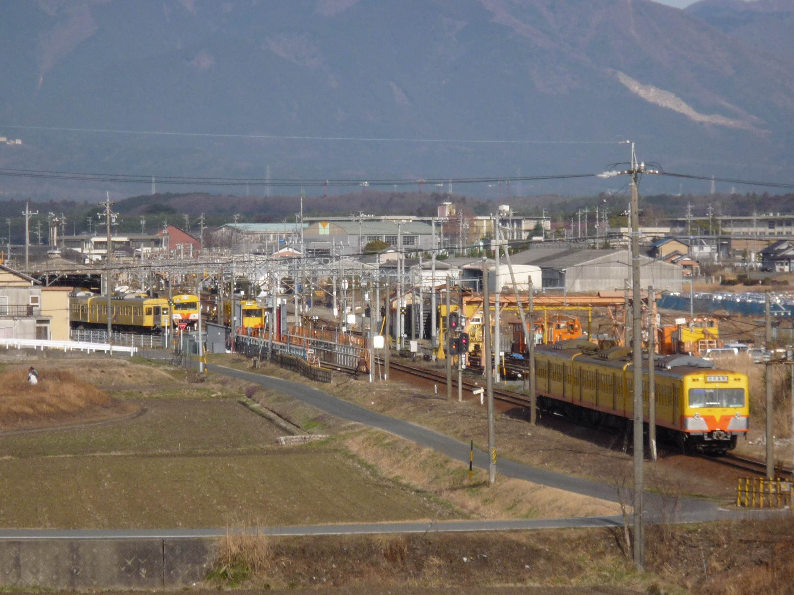 Hobo Station